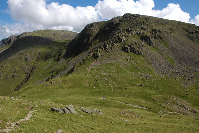 Black Sail Pass Black Sail Pass with Kirkfell Crags beyond.